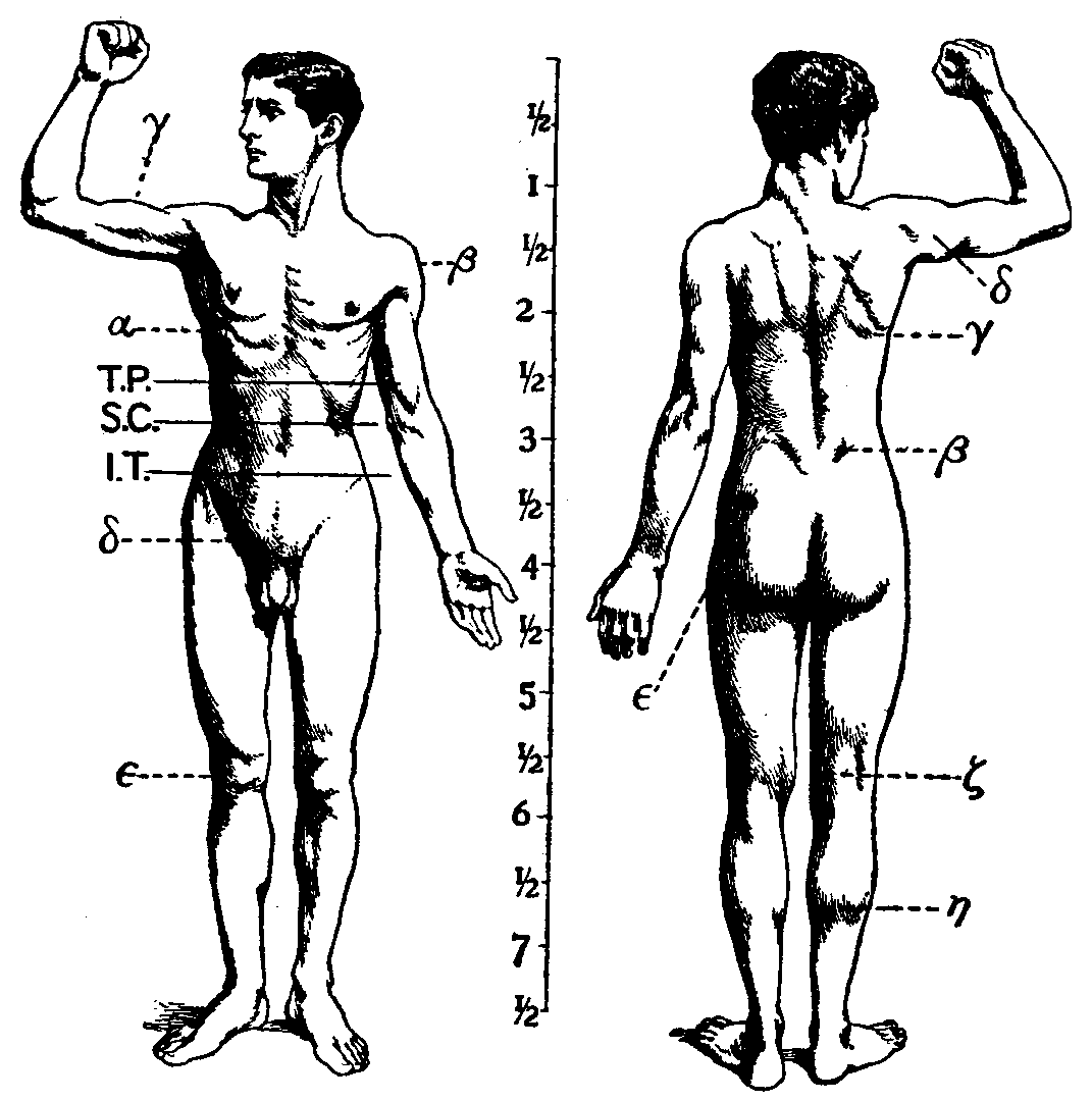 Anatomy - features of the Muscular system. Left image: α = Serratus magnus, β = Deltoid, γ = Biceps, δ = Poupart's ligament, ε = Patella, T.P. = Tranpyloric plane, S.C. = Subcostal plane, I.T. = Intertubercular plane. Right image: β = Dimple over posterior superior spine of ilium, γ = Lower angle of scapula, δ = External head of triceps, ε = Depression over great trochanter, ζ = Popliteal space, η = Gastrocnemius. (The scale between the figures represents head-lengths.)